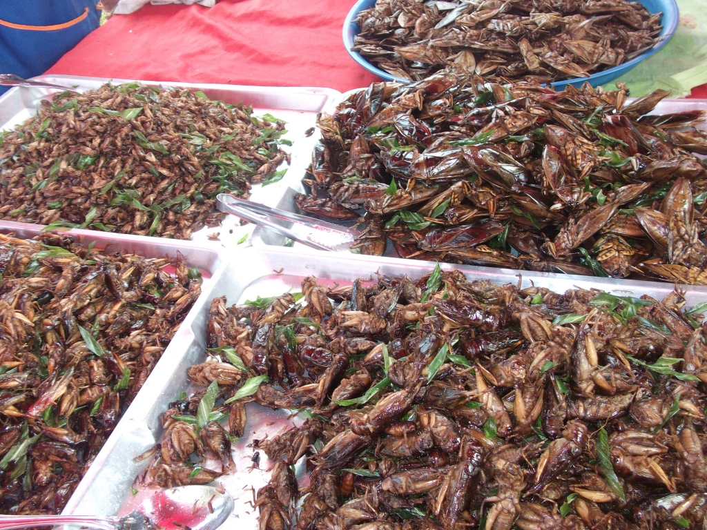 Fried insects (Lethocerus Indicus, grasshoppers or crickets) sold at a market in Thailand.